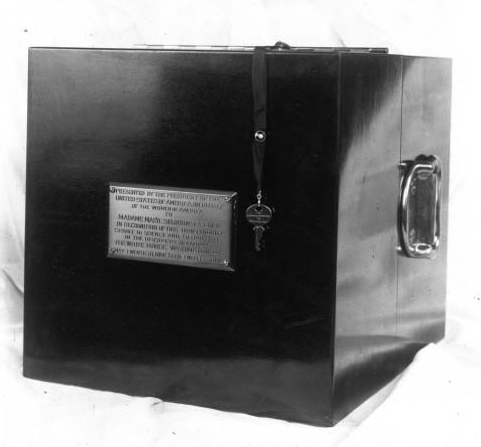 Box containing one gram of radium presented to Marie Curie by President Warren G. Harding of the United States on 20 May 1921. The plaque on the side of the container reads: "Presented by the President of the United States on behalf of the women of America to Madame Marie Skłodowska Curie in recognition of her transcendent service to science and to humanity in the discovery of radium. The White House, Washington, D.C. May twentieth, nineteen twenty-one." (Curie Institute, Paris, 1921)